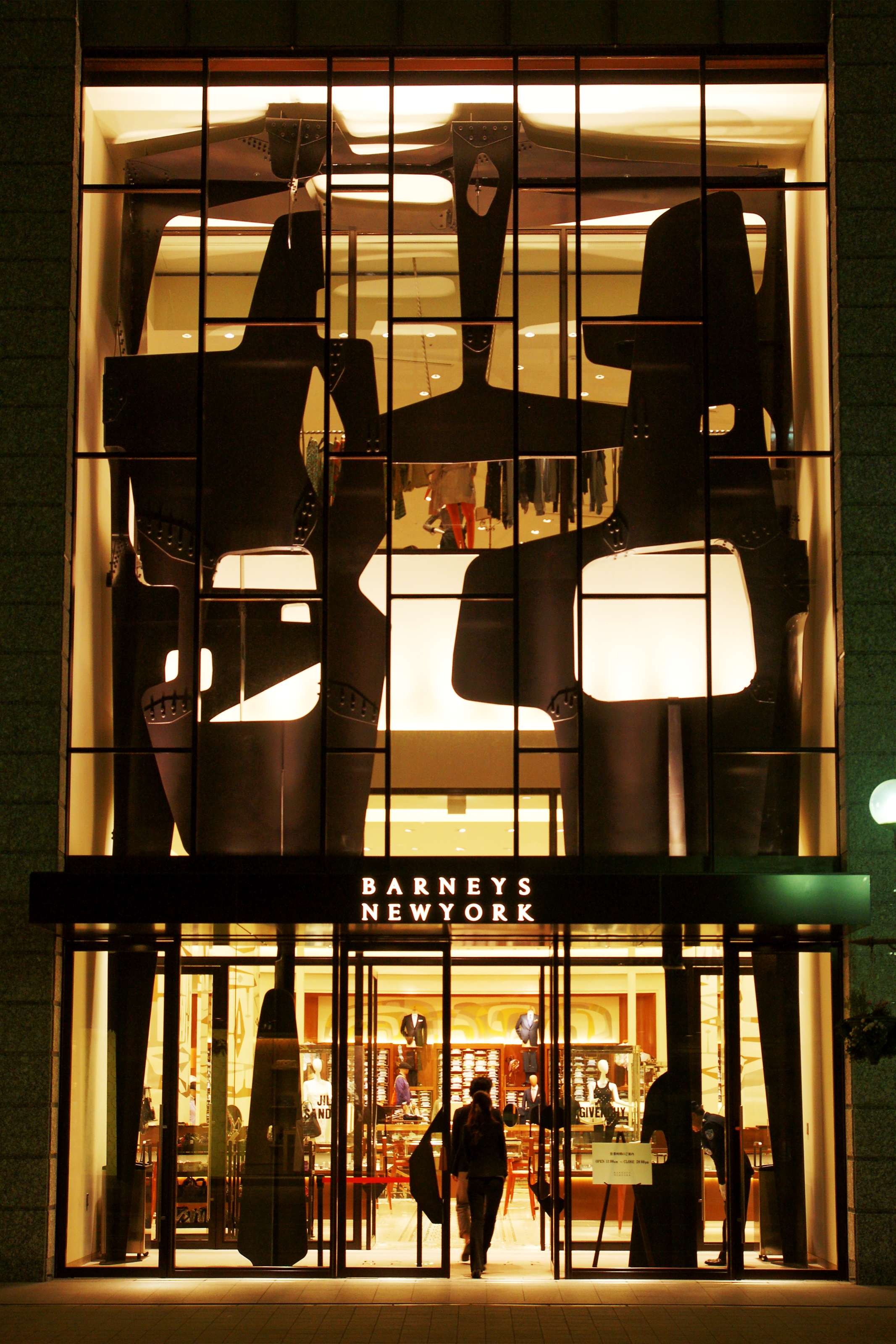 Barneys New York at The Old Settlement Hall of No.25, Kobe in Kobe, Hyogo prefecture, Japan